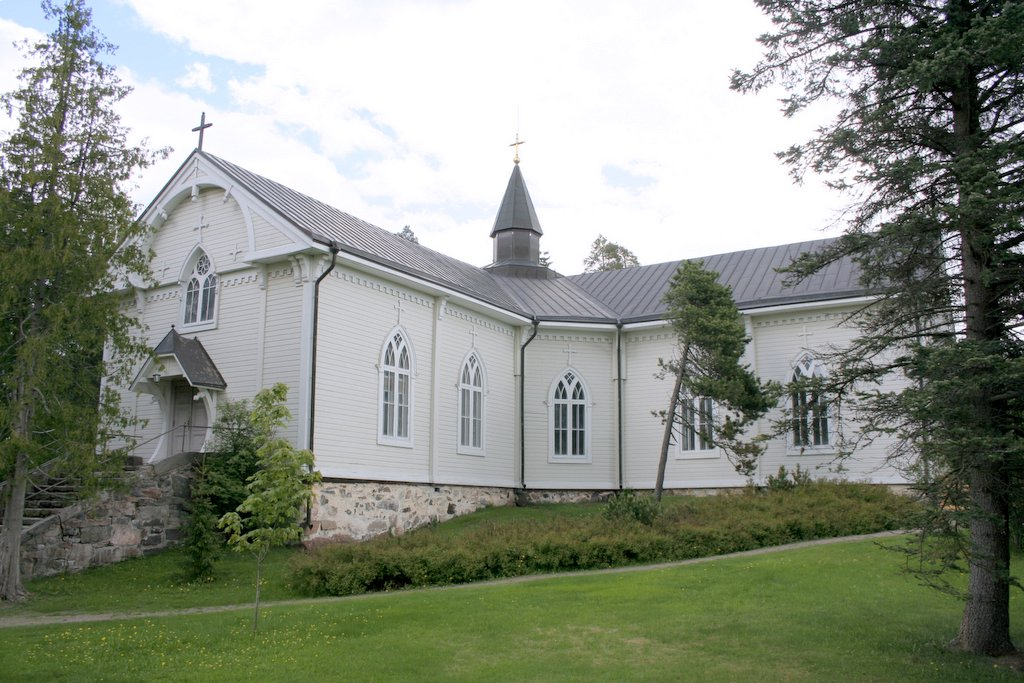 The Evangelic-Lutheran church of the parish of Askola in Askola, Finland